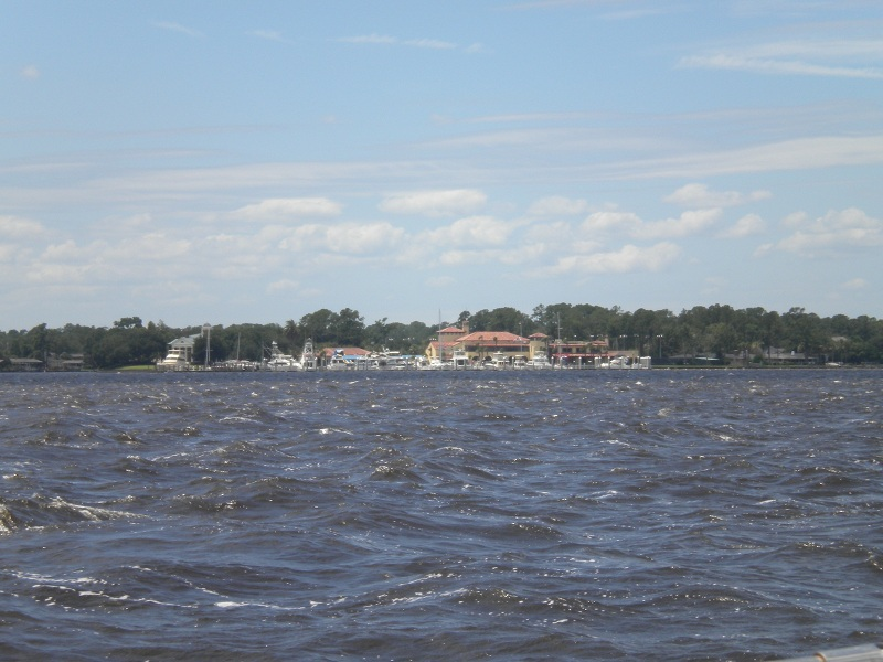 A distant view of the famous Florida Yacht Club in the Ortega neighborhood of Jacksonville, FL.